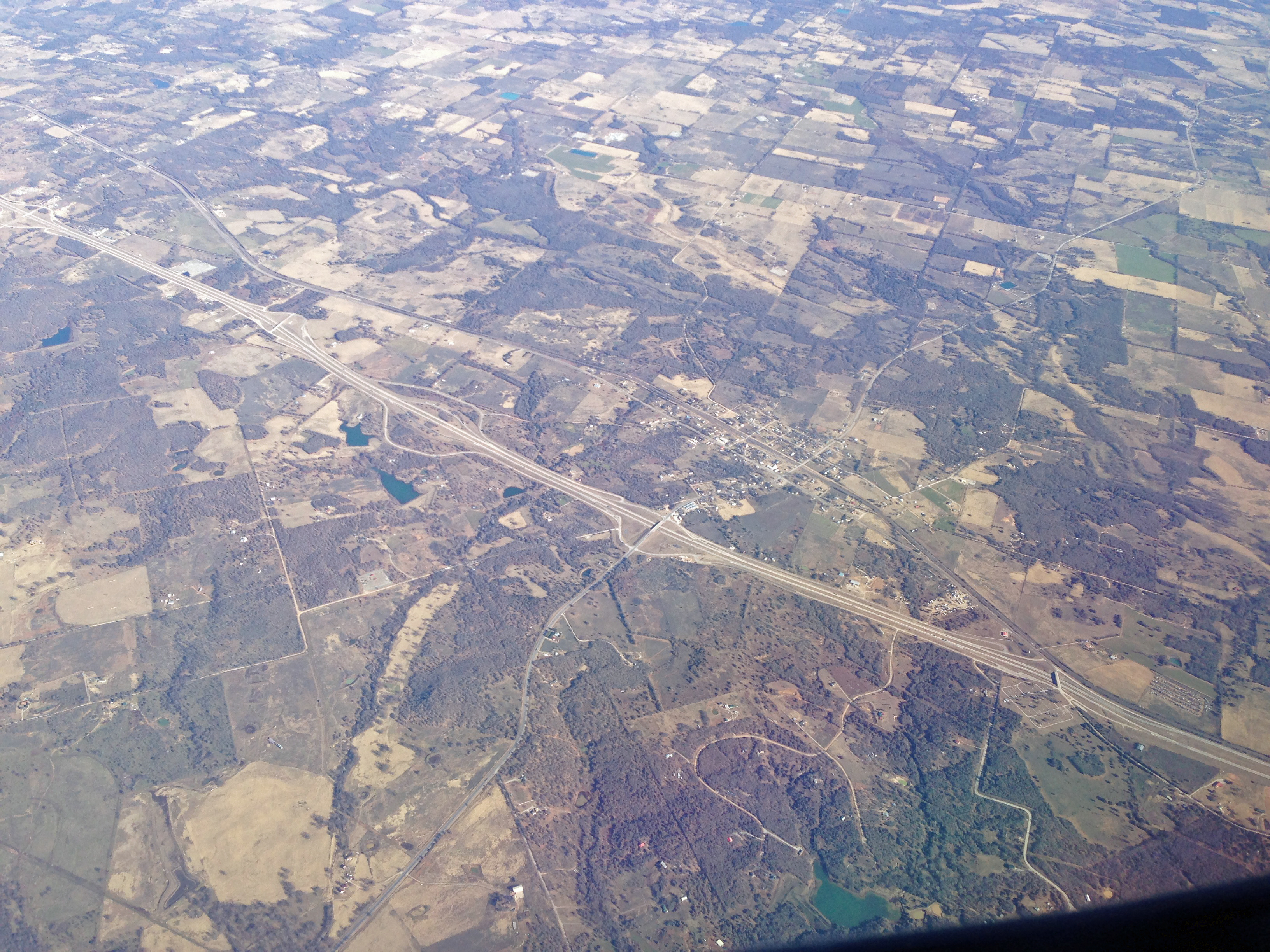 Sunset, Texas viewed from aboard an American Airlines flight from Lubbock International Airport to Dallas-Forth Worth International Airport.